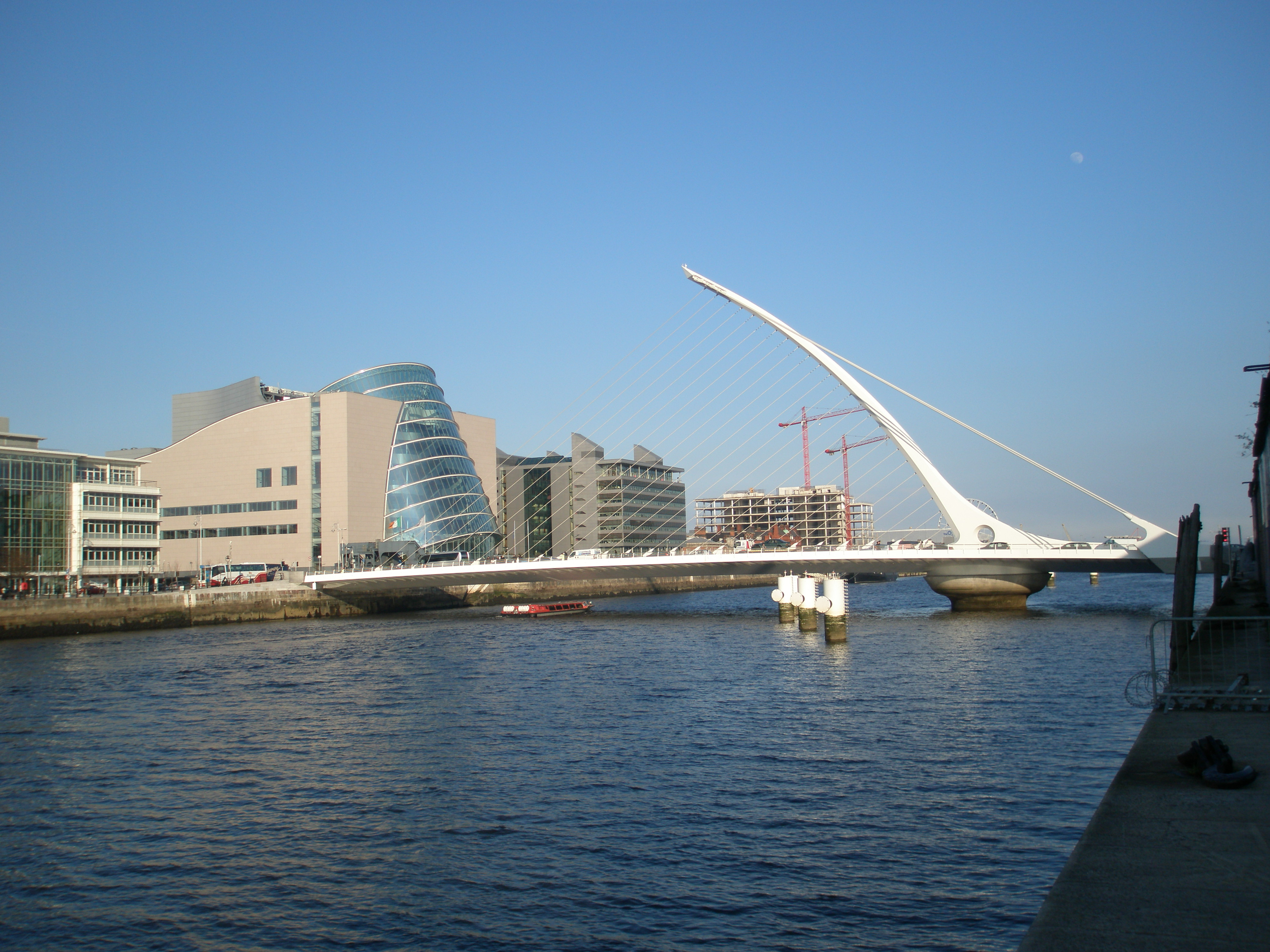 Samuel Beckett bridge, Dublin